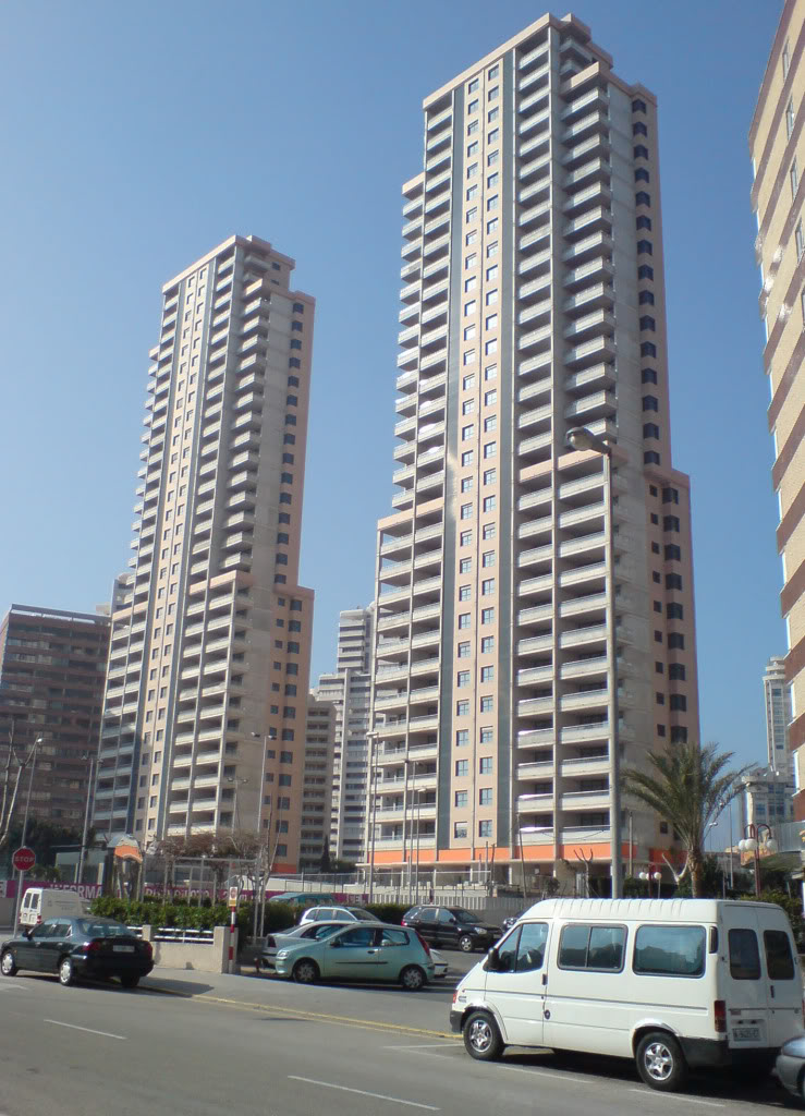 Torres d'Oboe, 114 m, Benidorm